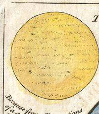 Sun in Samuel Dunn Wall Map of the World "The SUN and his Maculae as seen thro a Telescope" "Because from Observations of a great Number of these Maculae or Spots on the Face of the Sun, they all move in a Paralelism with the Suns Equator in the same Periods of Time, therefore it is concluded that they are Drops(?) on the Solar Ocean, and move round the Solar Axis with the Sun."'